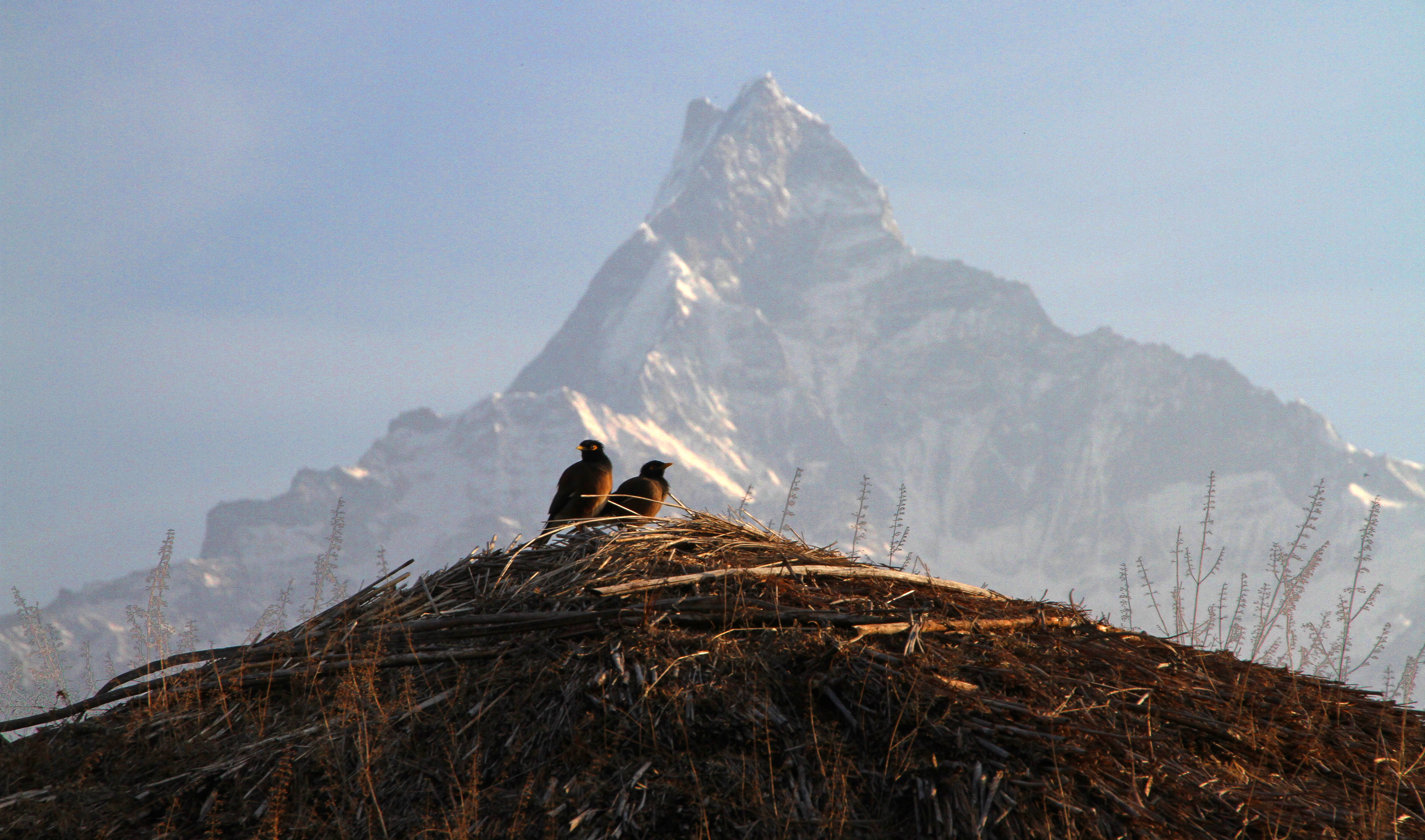 Dhampus village in Kaski District in Nepal